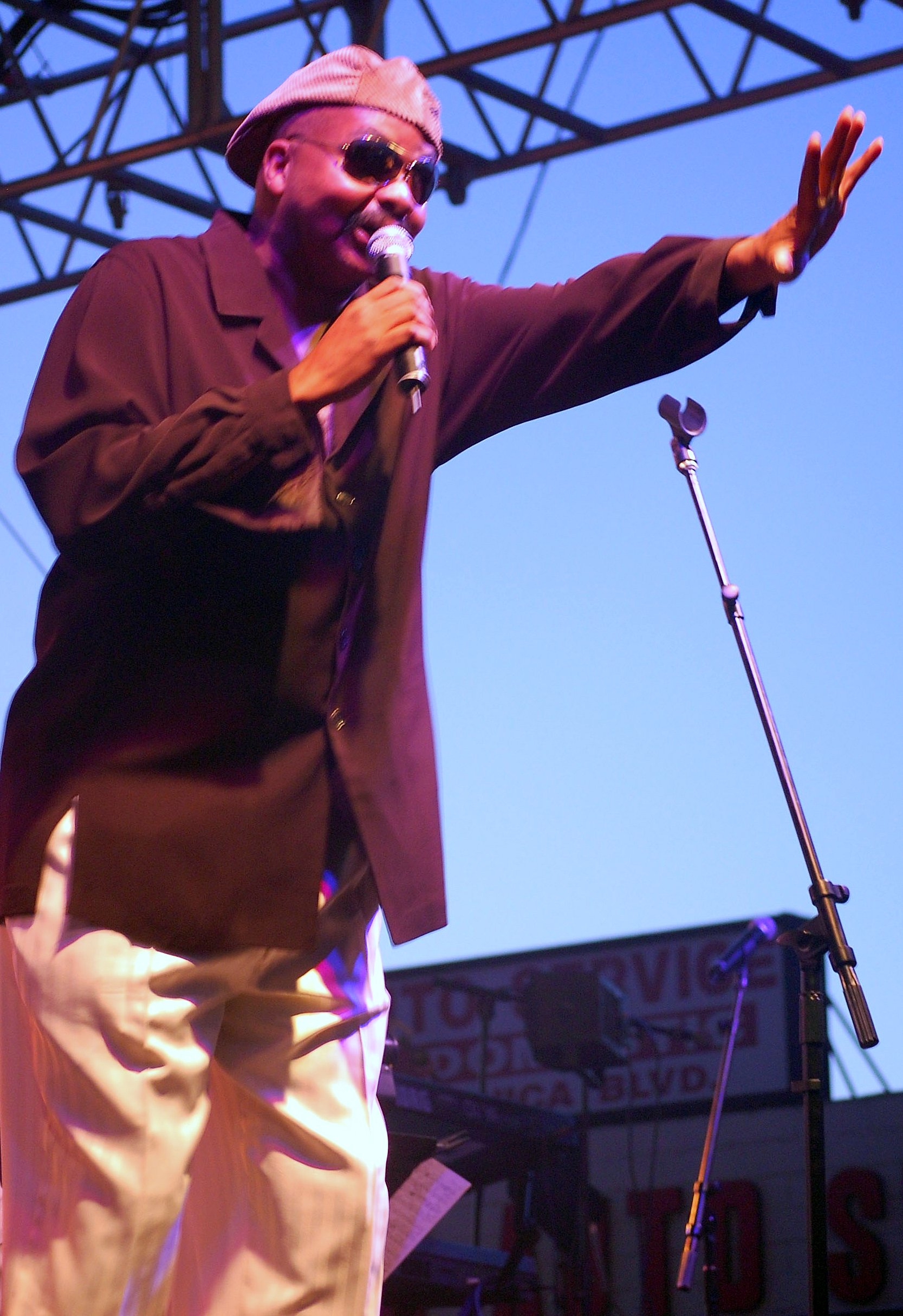 Michael Henderson live at Sunset Junction Festival. Los Angeles, California, 23 August 2008.